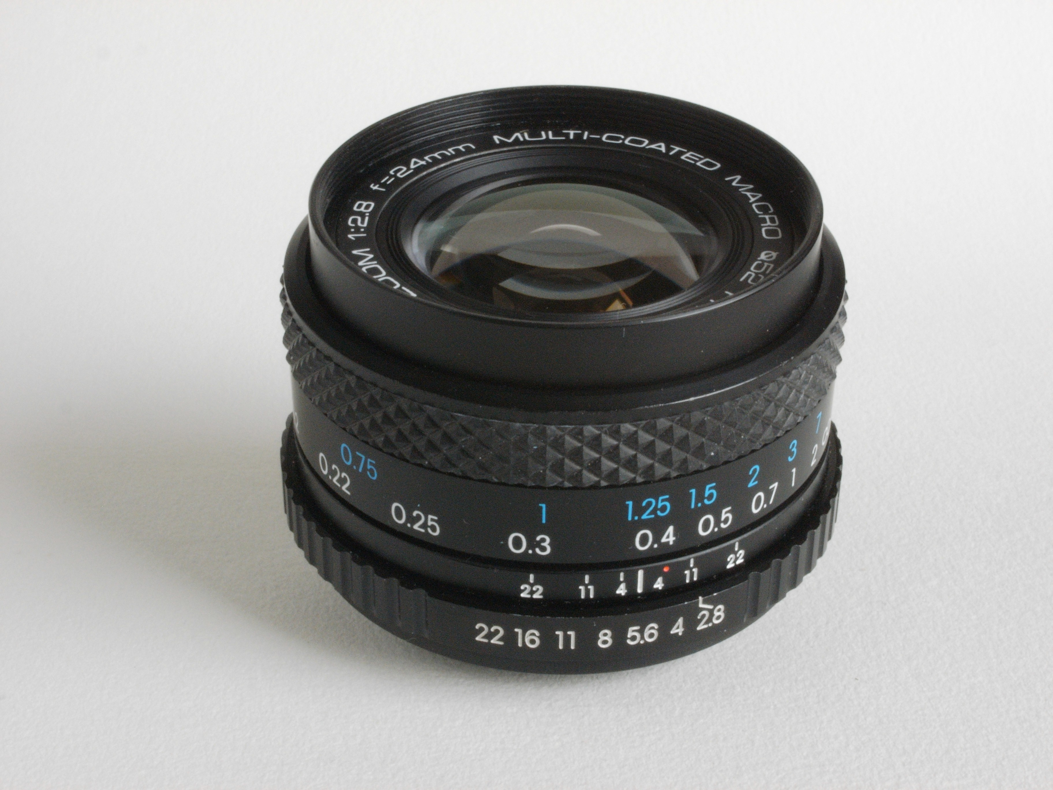 Prakticar macro lens 24 mm, f/2.8